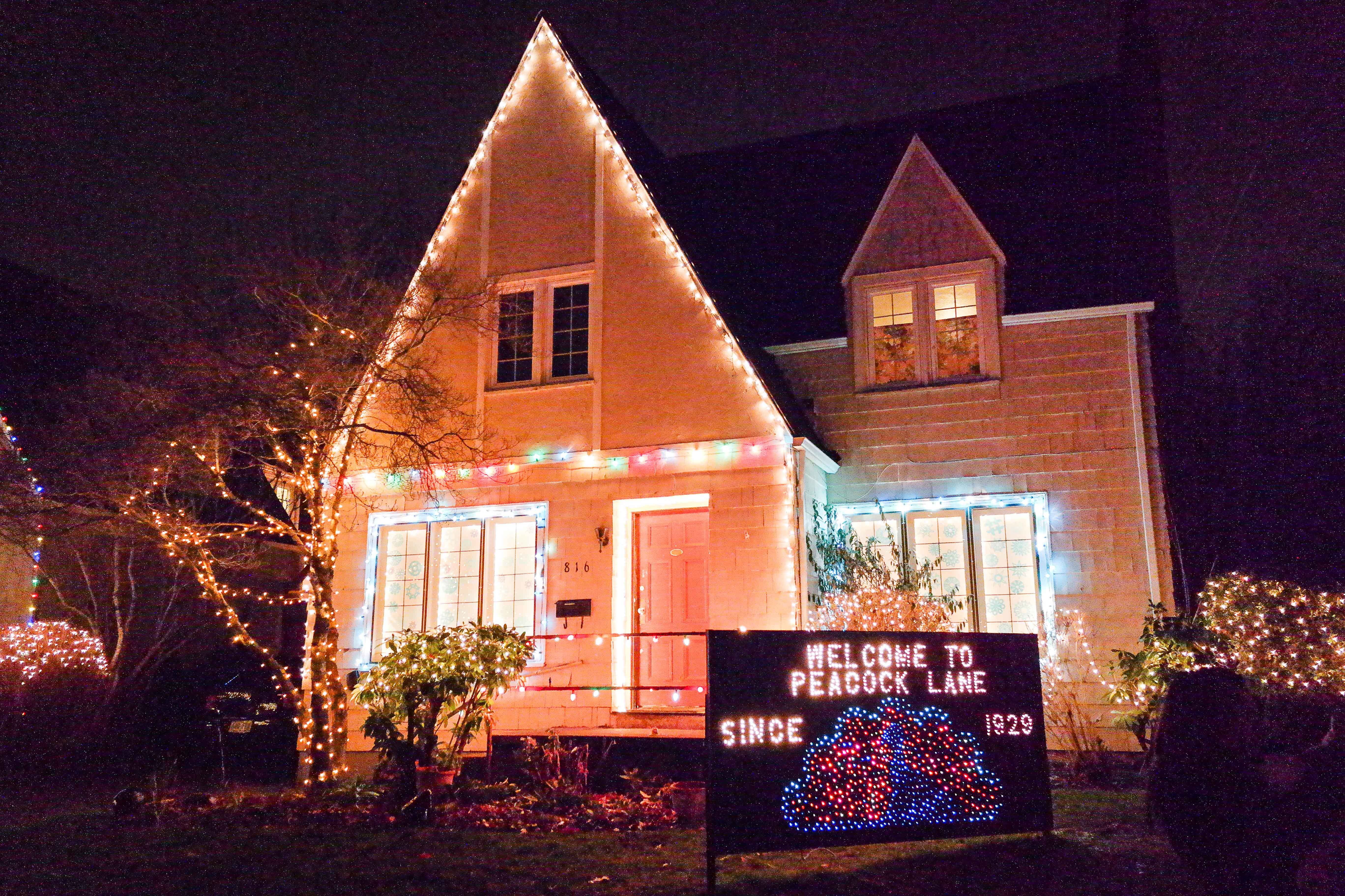 Christmas lights on SE Peacock Lane in Portland, Oregon